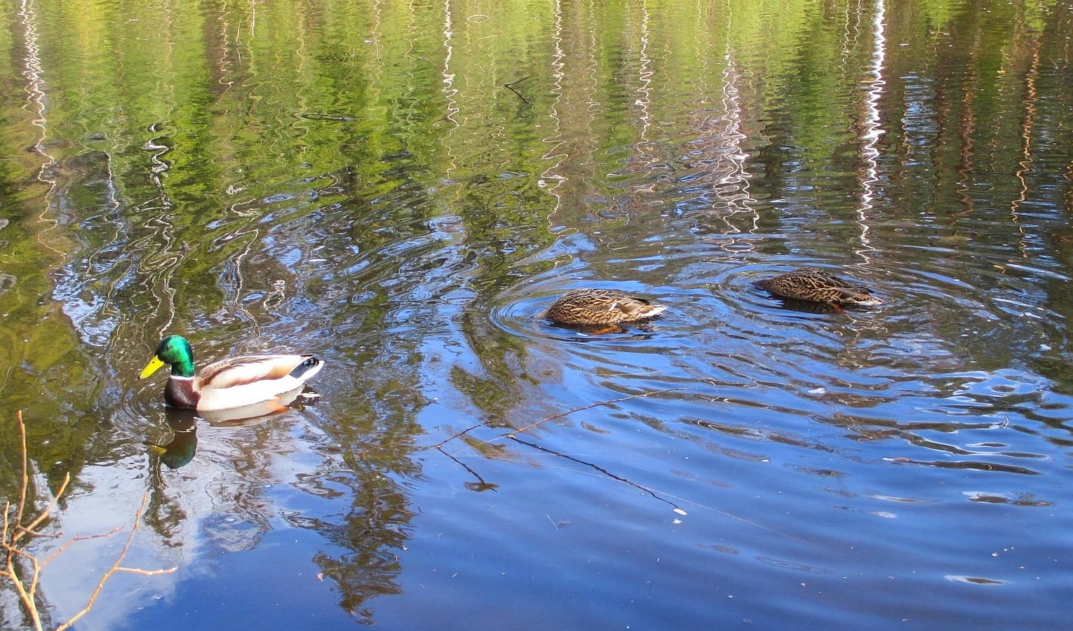 Anas platyrhynchos: male (left) and two females (Hyvinkää, Finland)